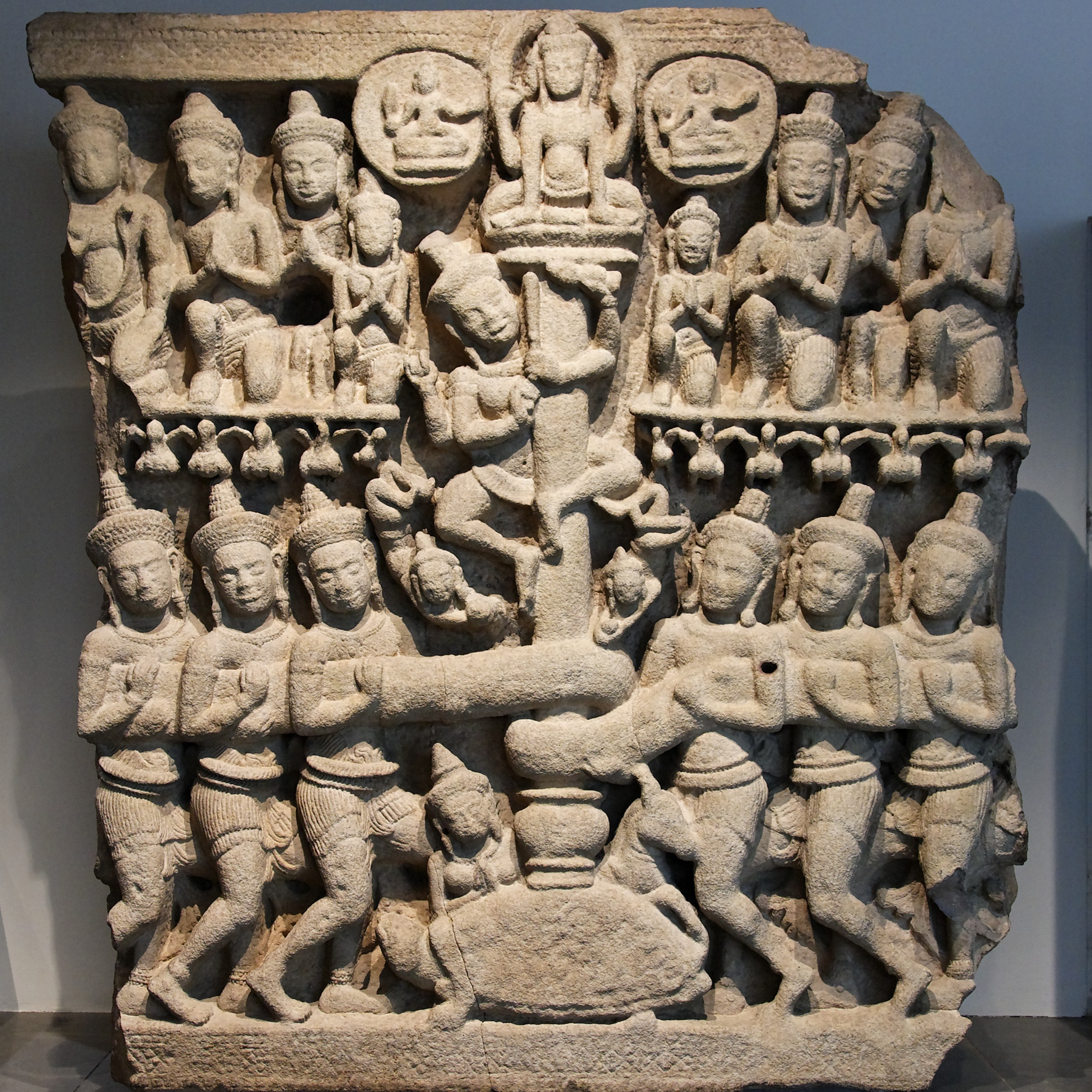 The churning of the ocean of milk, Cambodia, Prasat Phnom Da, Angkor vat style, first half of the XIIth century, sandstone. Musée Guimet, Paris